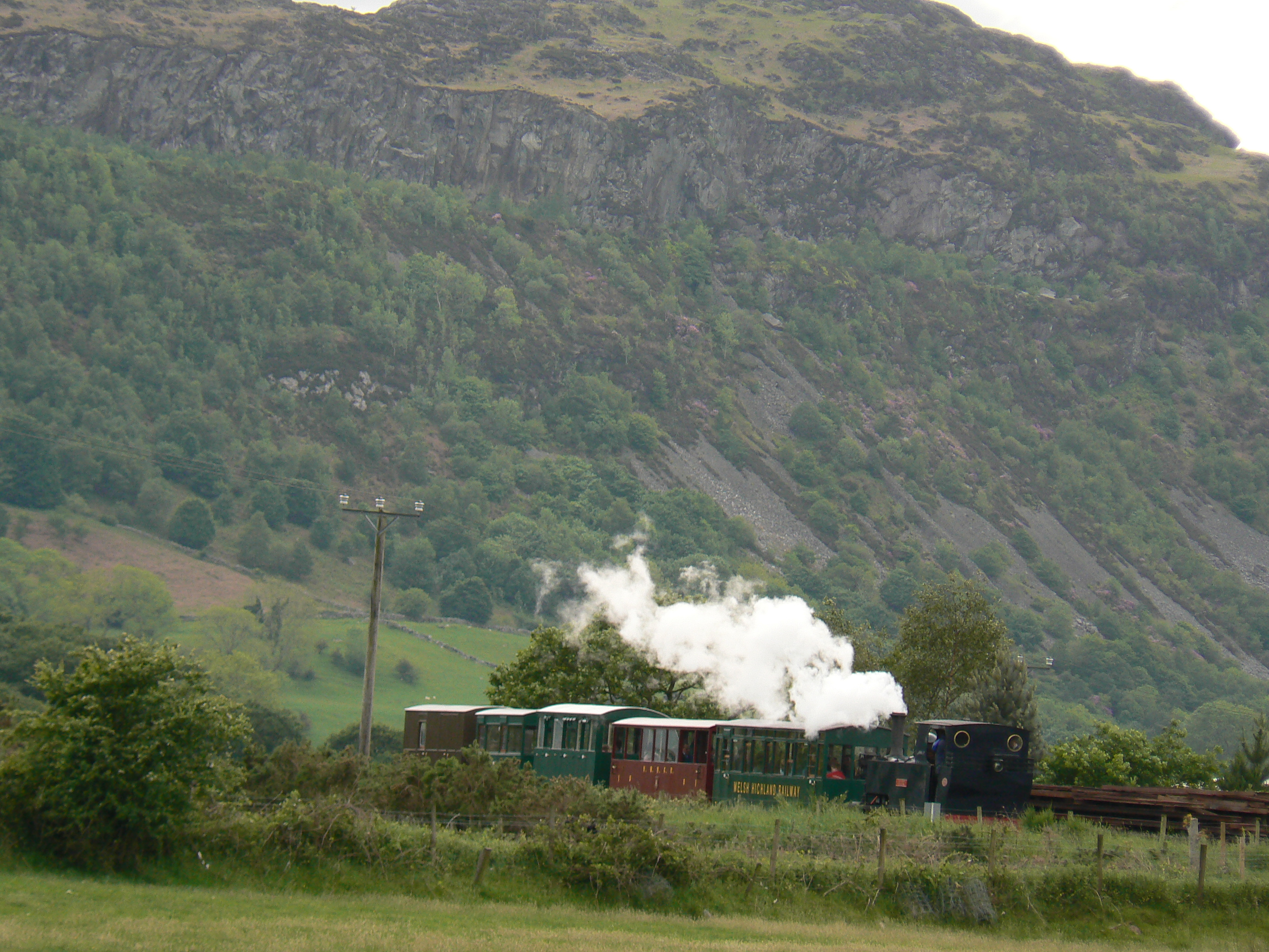 Bagnall 0-4-2 Gelert and WHHR train near Pen-y-Mount, Porthmadog